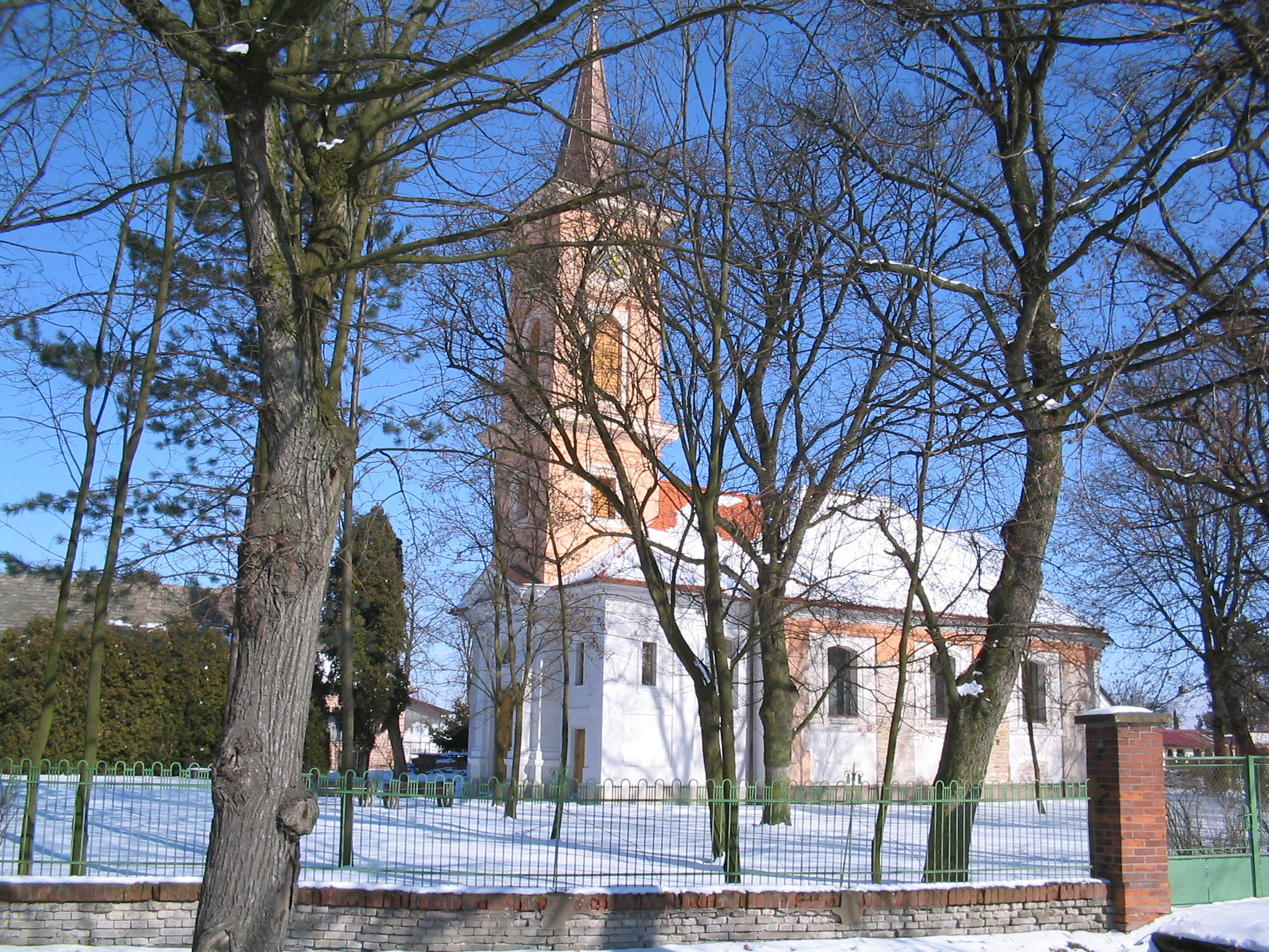 Former Lutheran church in Černilov (Czech republic)